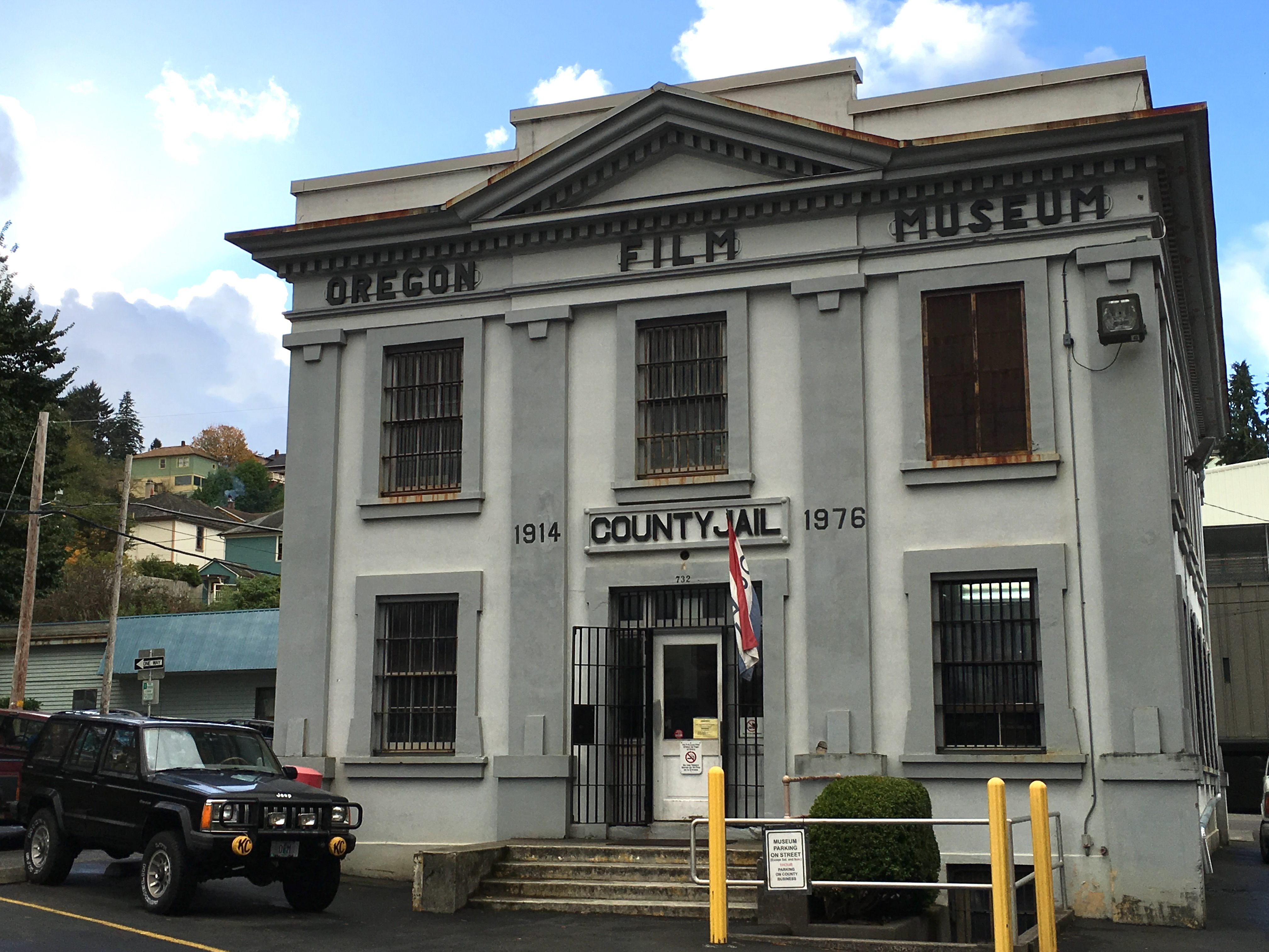 The exterior of the Oregon Film Museum.